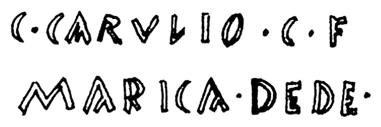 Latin inscription from the Sanctuary of Marica near Minturnae: C(aius) Carulio(s) C(ai) f(ilius) Marica(e) dede(t). (CIL 01, 02438)